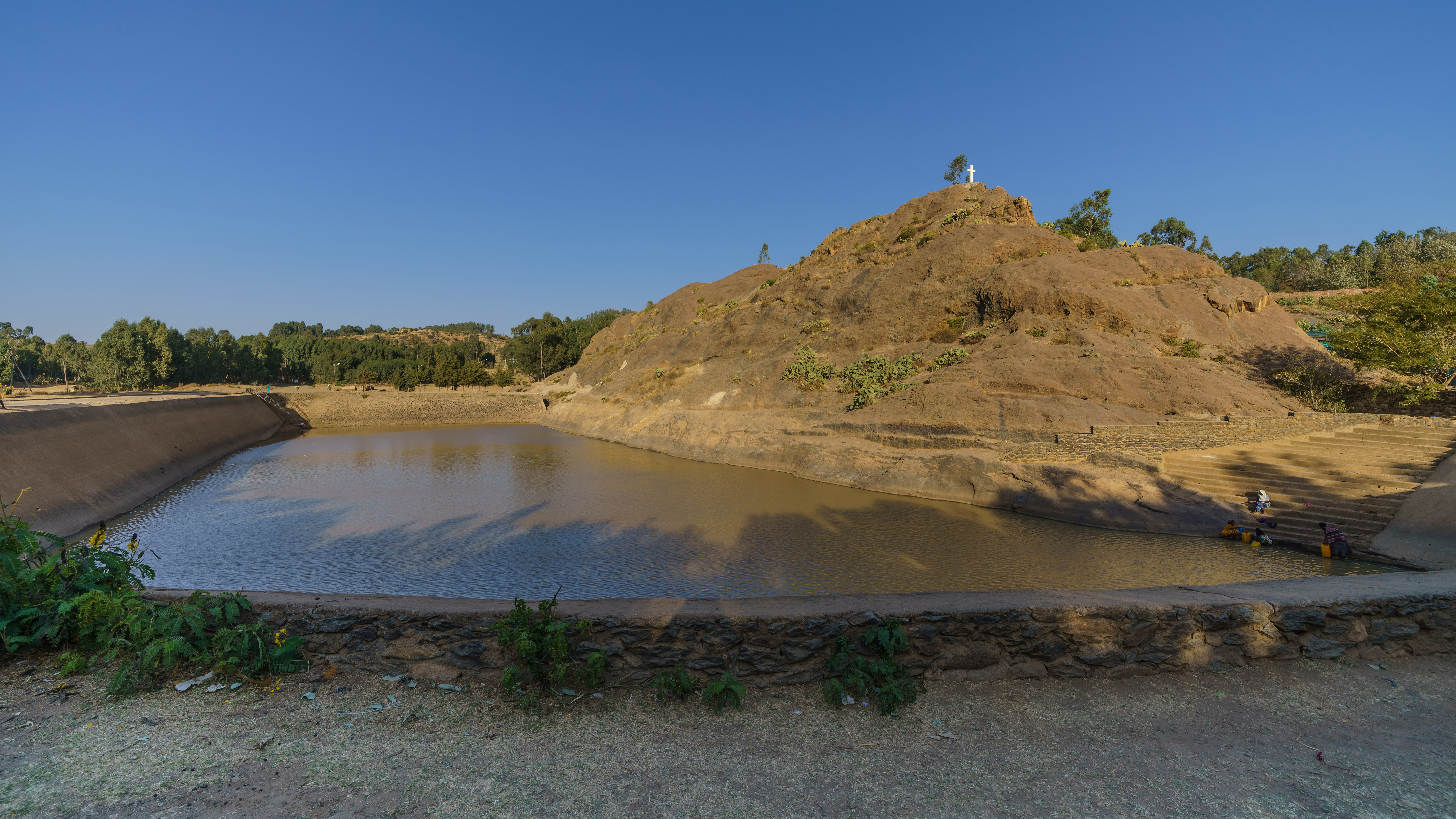 Pond called Queen of Sheba's Bath in Aksum, Tigray Region, Ethiopia